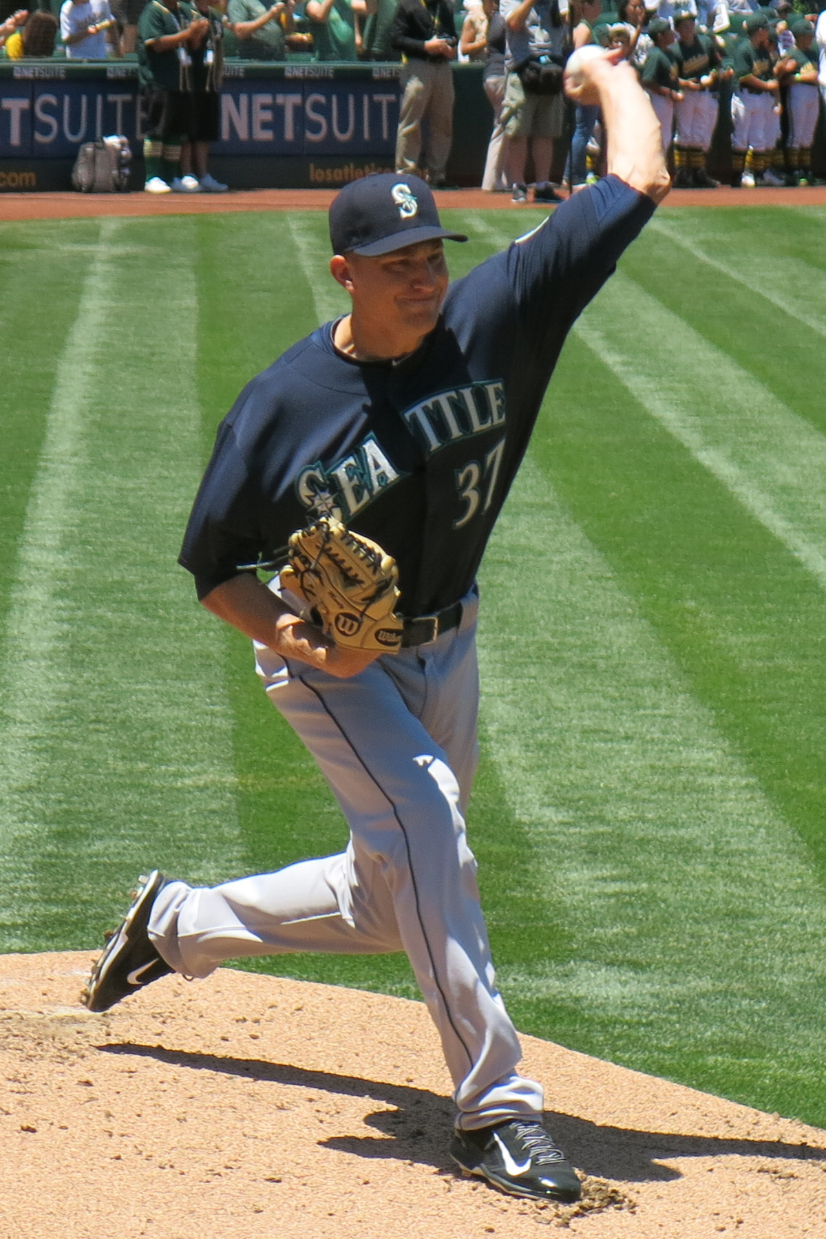 Mike Montgomery warms up in the bullpen in Oakland, California, before a start on July 5, 2015.